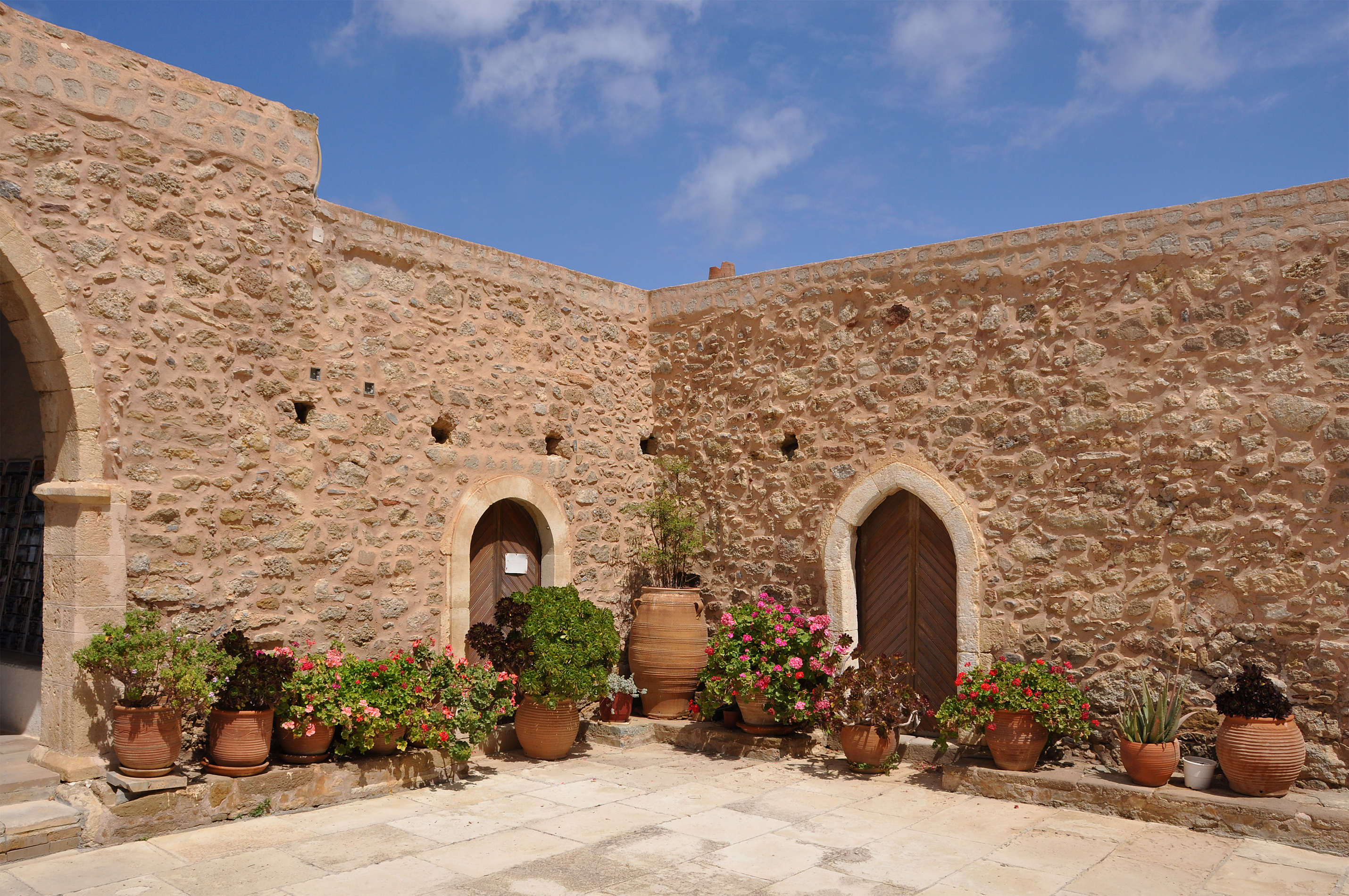 Toplou monastery (Moni Toplou), Crete, Greece: inner court